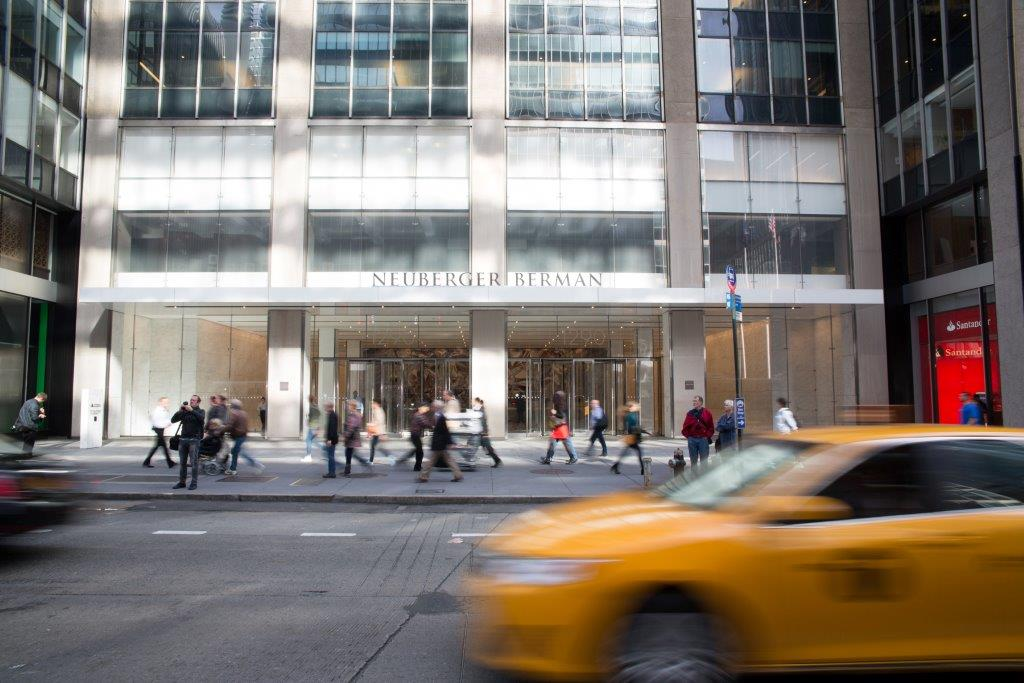 An image of the facade of the building at 1290 Avenue of the Americas, in New York City.